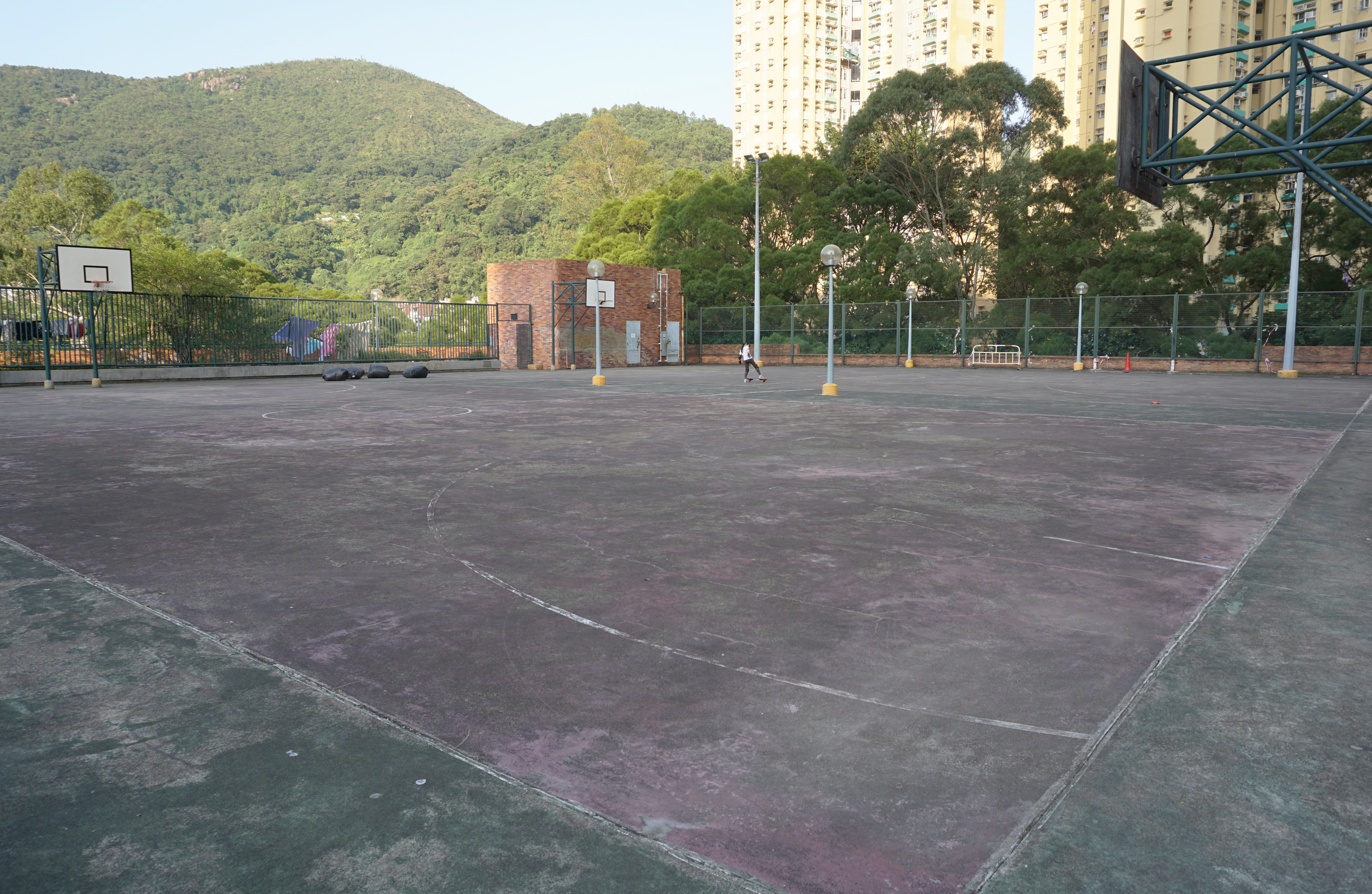 Kwong Lam Court in Siu Lek Yuen, Hong Kong.